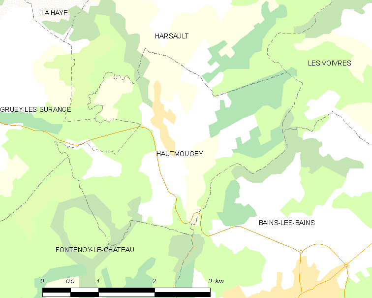 Map of French municipality Hautmougey